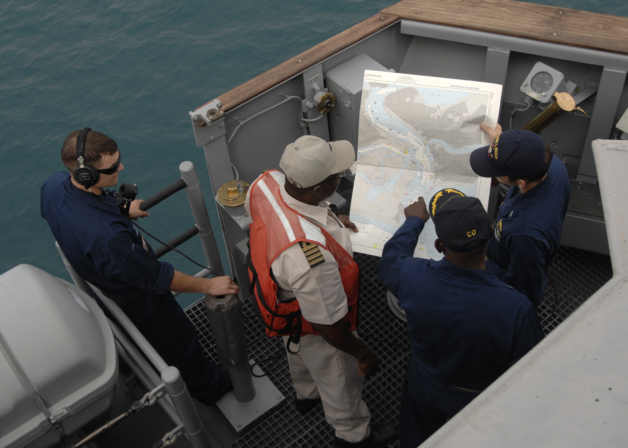 LAGOS, Nigeria (April 5, 2011) Cmdr. Darryl Brown, commanding officer of the guided-missile frigate USS Robert G. Bradley (FFG 49), talks with a Nigerian pilot while navigating into the port of Lagos in support of Africa Partnership Station (APS) West. APS is an international security cooperation initiative designed to strengthen global maritime partnerships through training and collaborative activities to improve maritime safety and security in Africa.